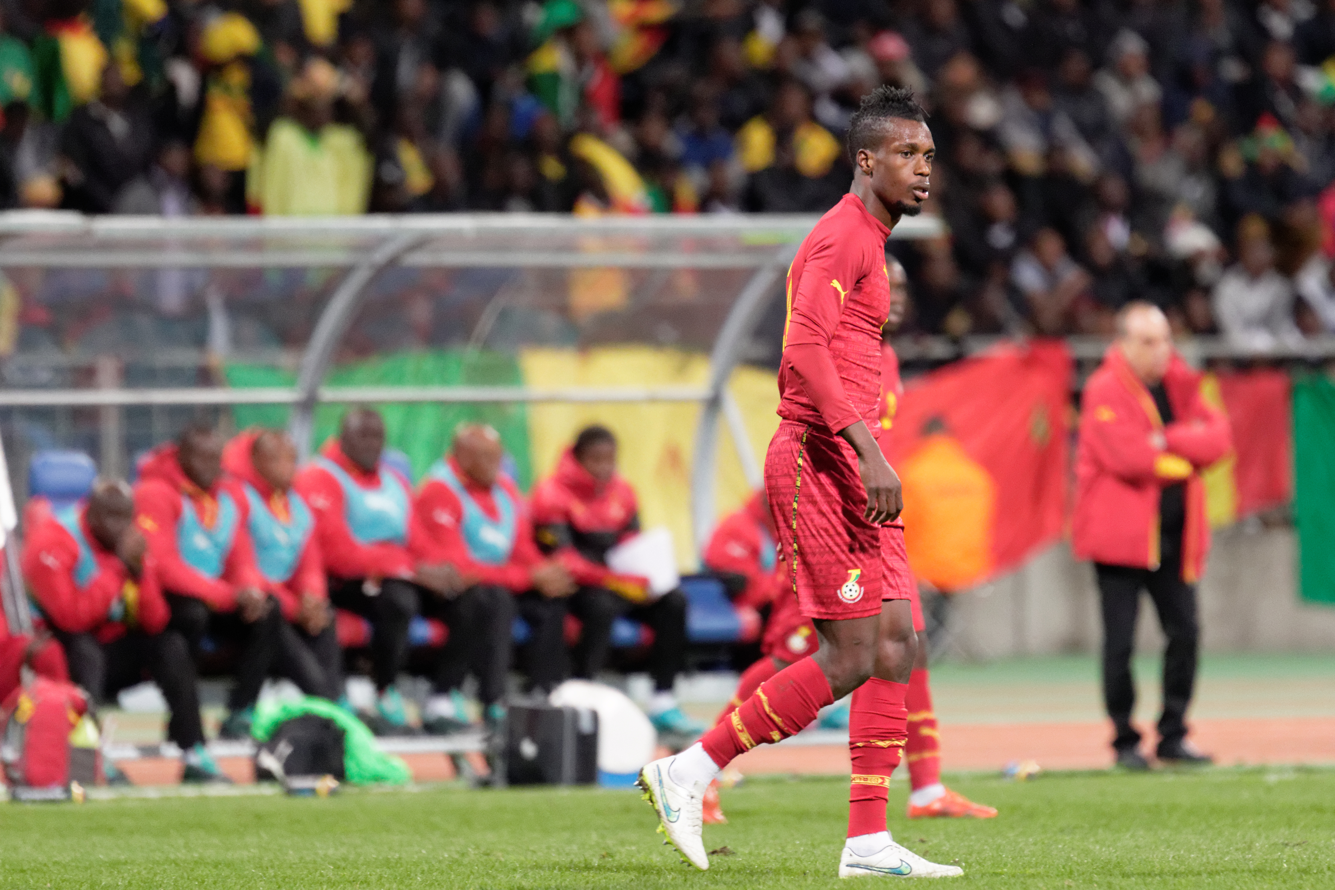 Mali vs Ghana, exhibition game at Paris, 31st March 2015.